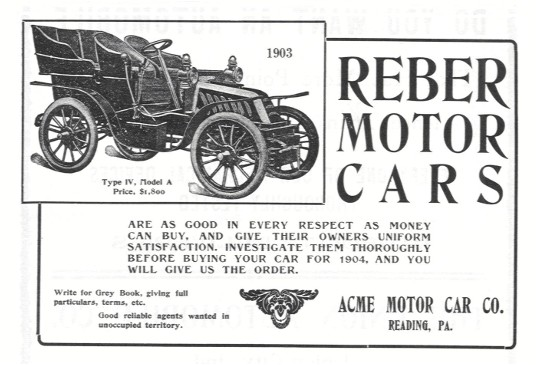 1903 Acme Motor Car Co. of Reading, PA, advertisement offering the Reber Type IV Model A rear entrance tonneau. Acme was a reorganization of the Reber Manufacturing Co. of Reading, PA. This car, and the Reber brand were discontinued after 1903.